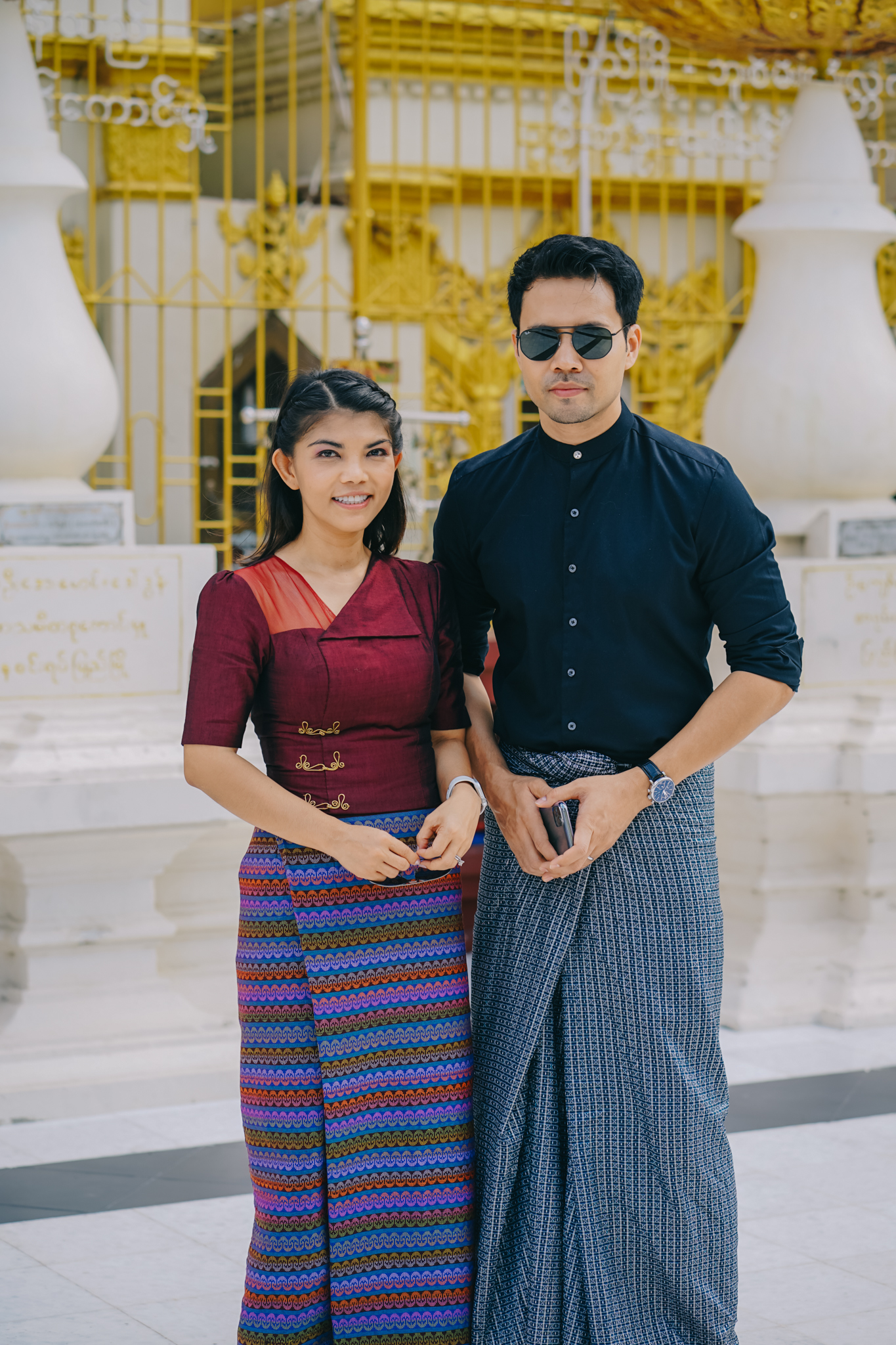 Kyi Couple portrait photo